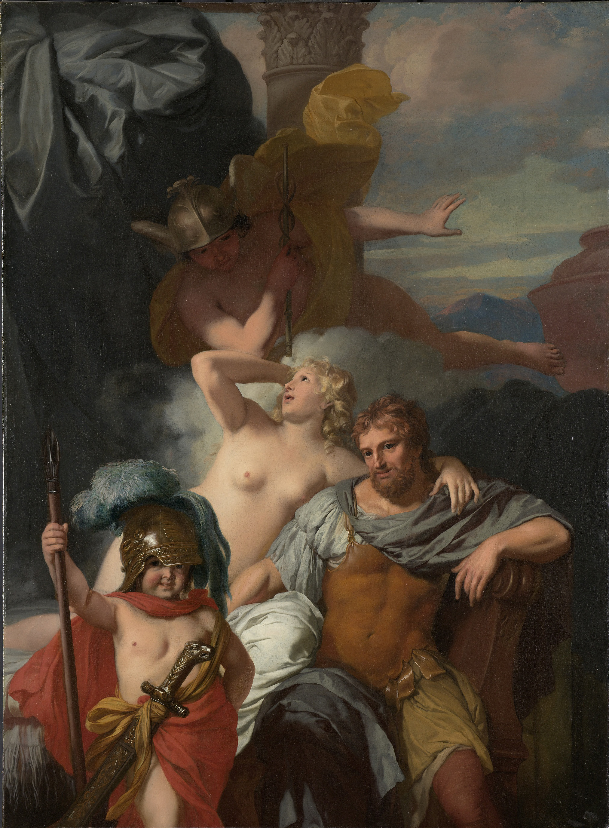 Mercury ordering Calypso to release Odysseus. Painting, commissioned between 1678 and 1682 for the bedchamber of Mary Stuart, later queen of England, at the hunting lodge of her husband, William III of Orange, the present Soestdijk Palace. For the two other surviving paintings by de Lairesse from this bedchamber, see File:Gerard de Lairesse 001.jpg and File:1677 Gérard de Lairesse - Diana.jpg.